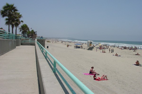 Pacific Beach, The view south of Crystal Pier